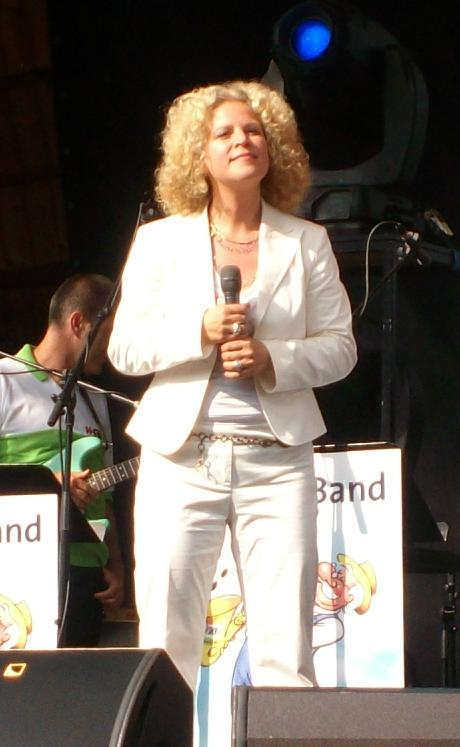 Christiane Brammer singing on an event of the German radio station SWR 4.